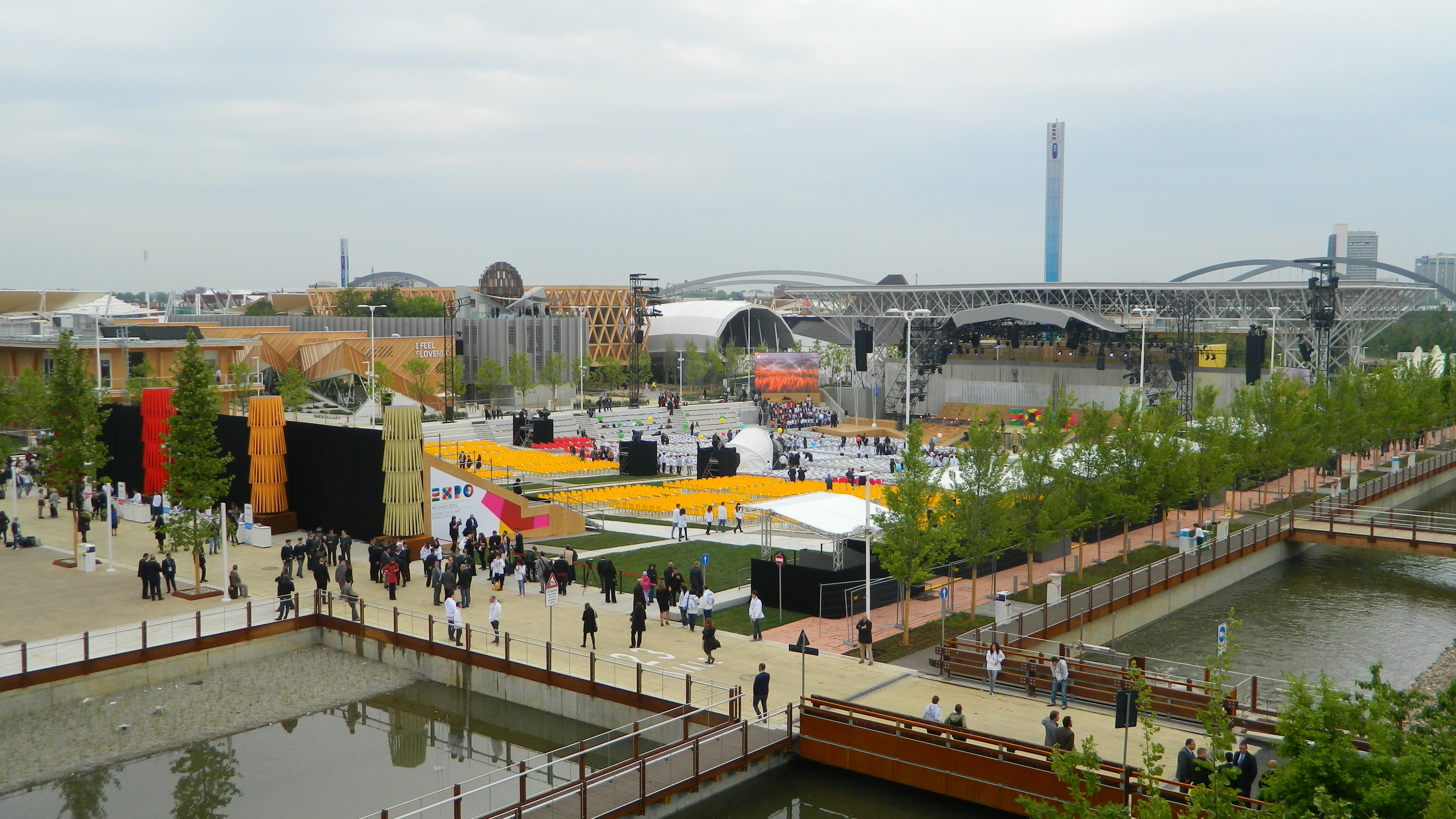 Open Air Theatre at expo 2015 Milano